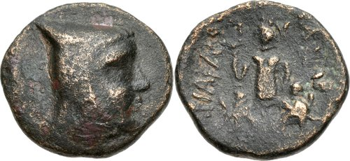 Ariarathes III coin